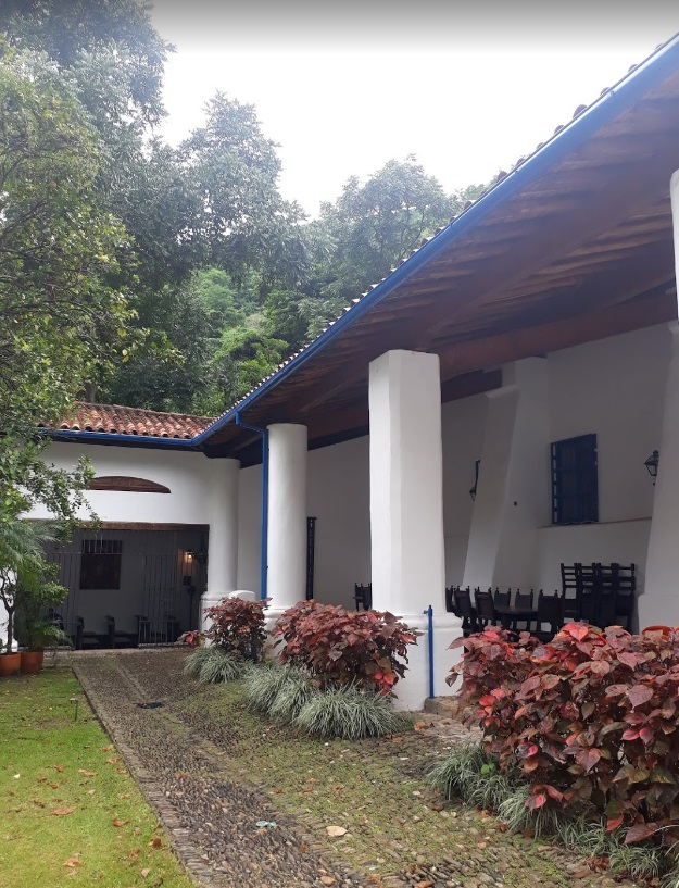 Izcaragua country club Miranda State Venezuela 5 Gardens